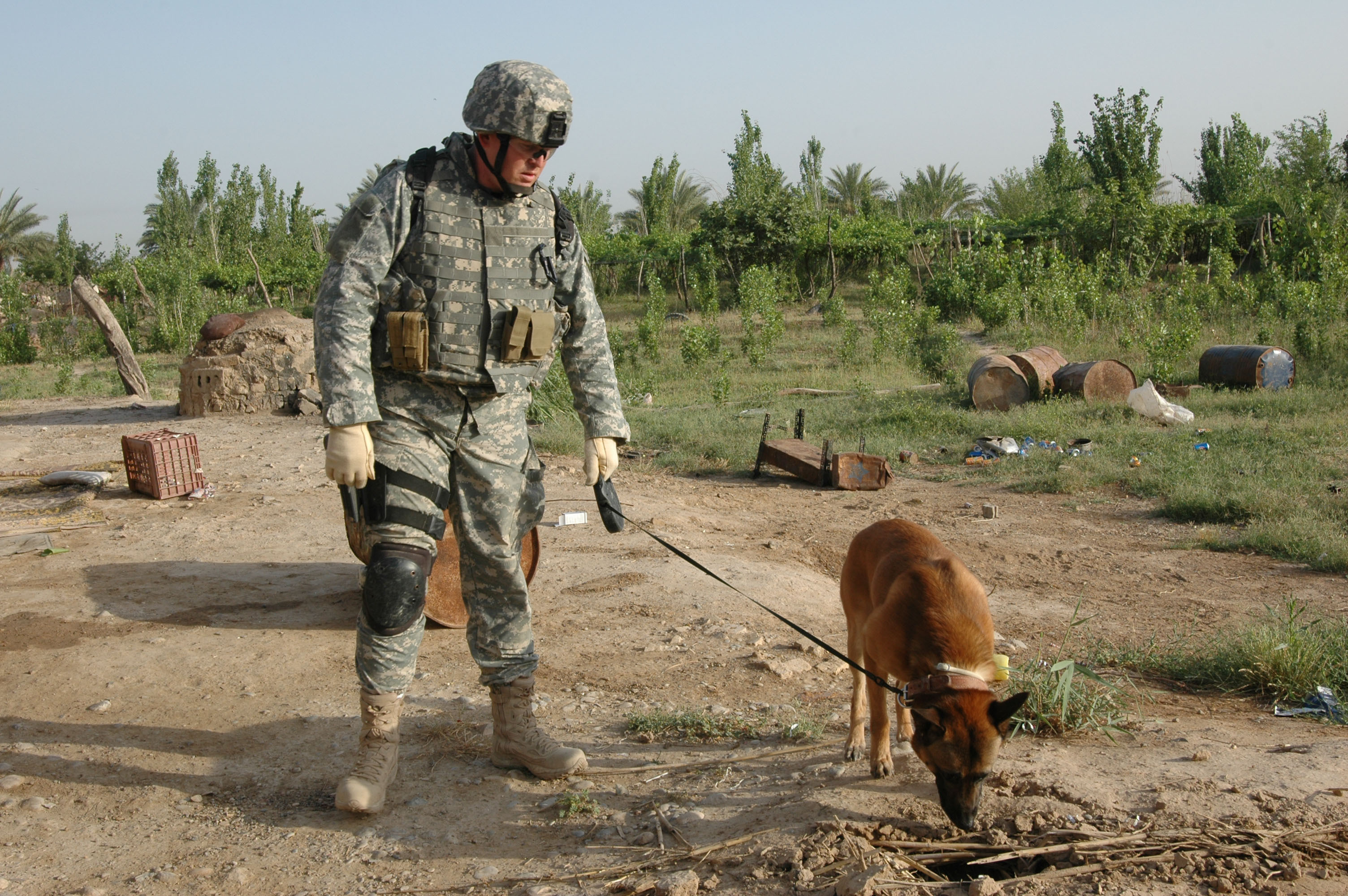 U.S. Air Force Staff Sgt. Dennis Browning, a military working dog handler, and King, an explosives and patrol attack dog, search the area during a clearing operation near Khan Bani Sa'ad, about 15 miles south of Baqouba, Iraq, May 15. Soldiers from 3rd Brigade Combat Team, 1st Cavalry Division, searched the villages for evidence of insurgent activity in the area.